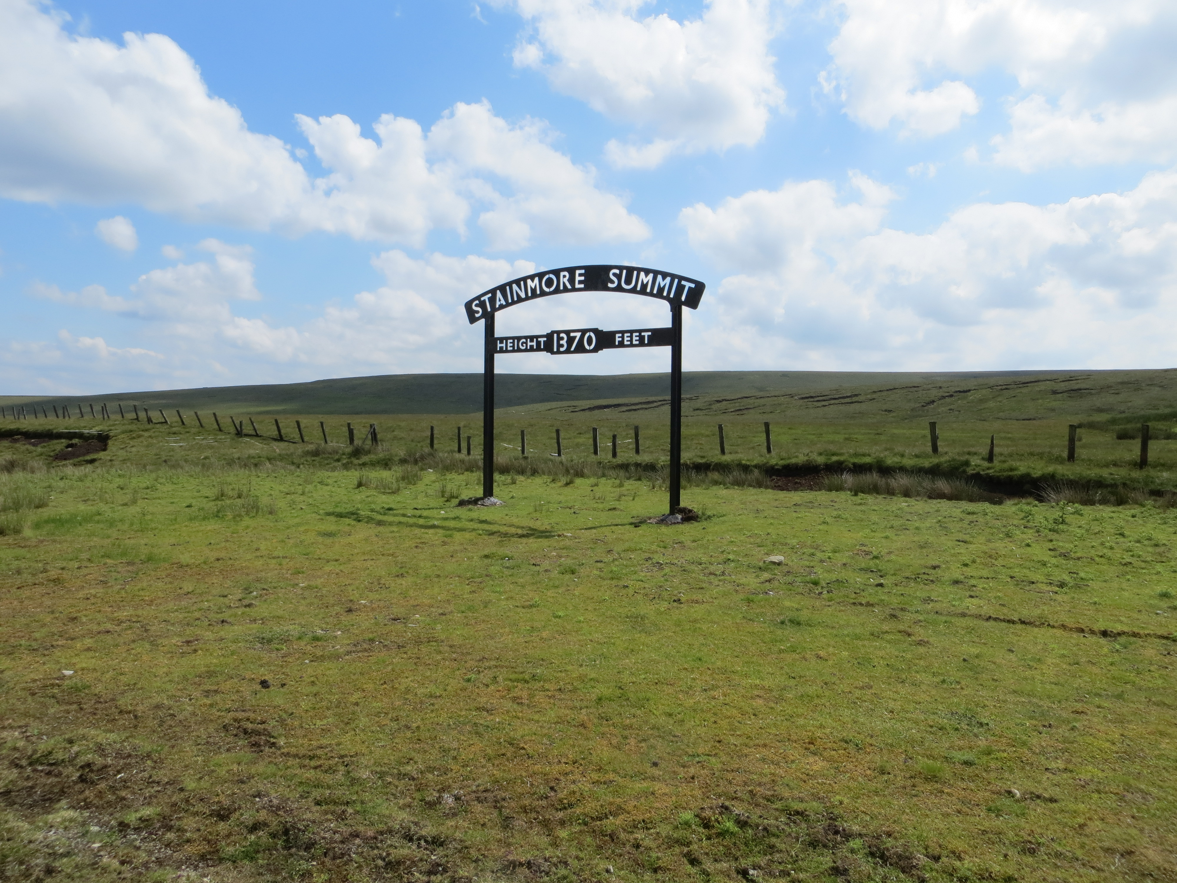 Sign at Stainmore Railway Summit marking the spot where an older sign (now at Darlington Railway Centre and Museum) was located.